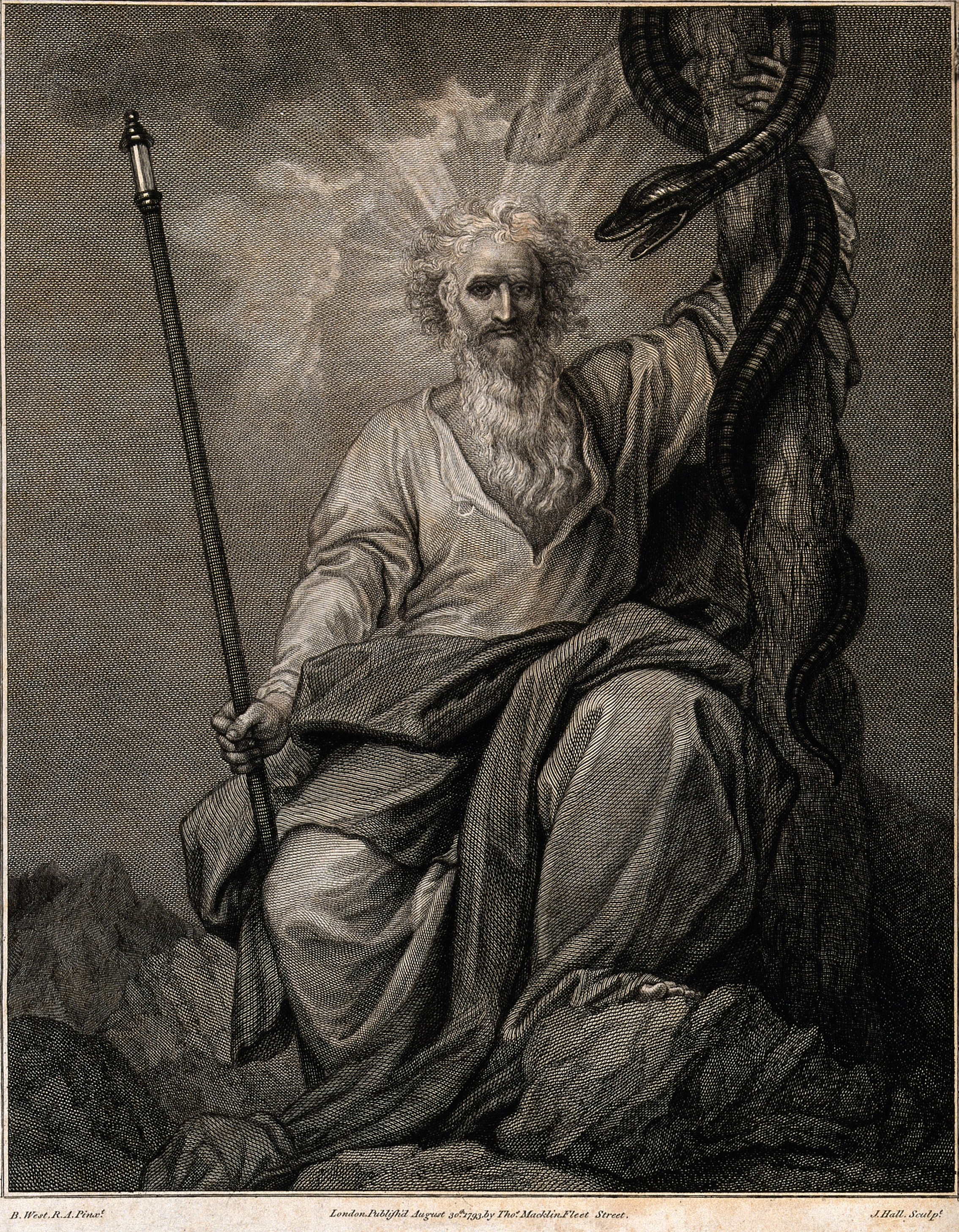 Moses with his rod and his brazen serpent. Engraving by J. Hall, 1793, after B. West. Iconographic Collections Keywords: Benjamin West; Moses; John Hall